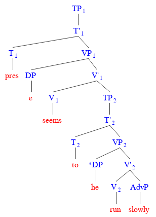 underlying structure without movement